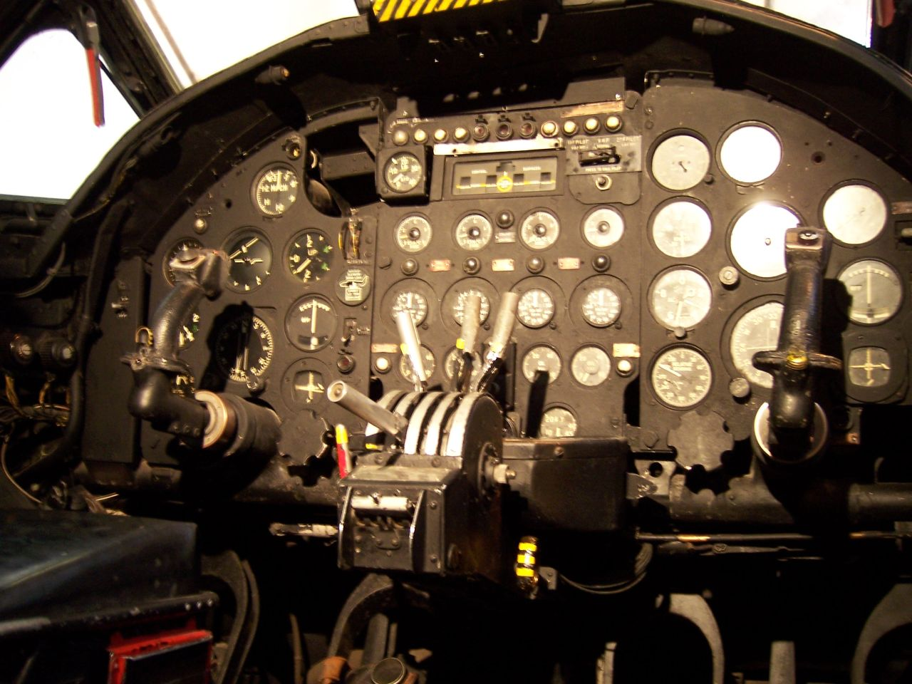 Cockpit of Avro Vulcan